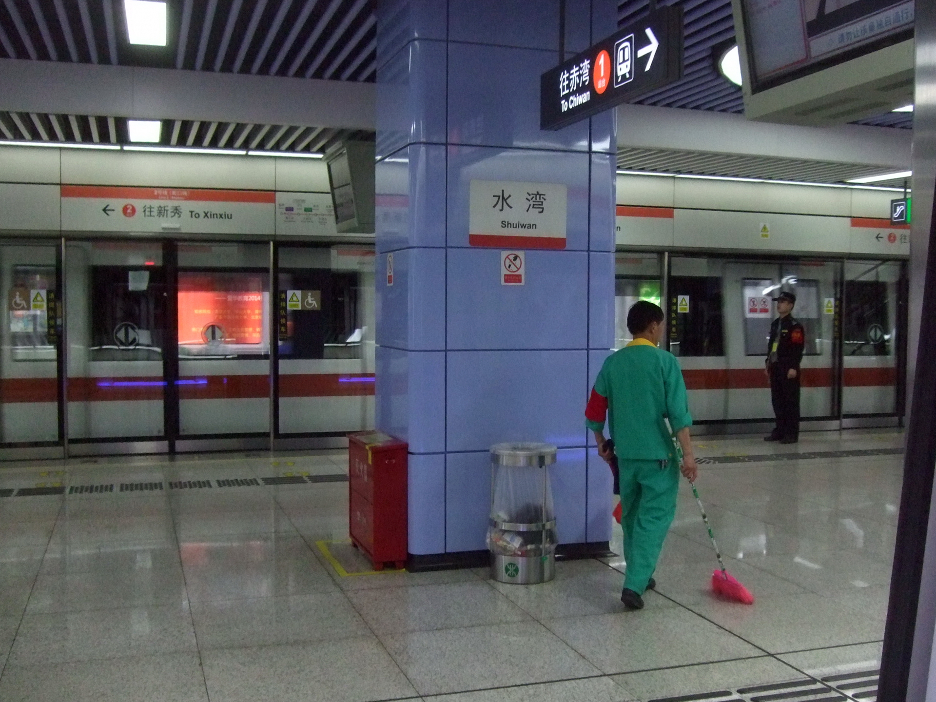 Shenzhen Metro_Shuiwan Station